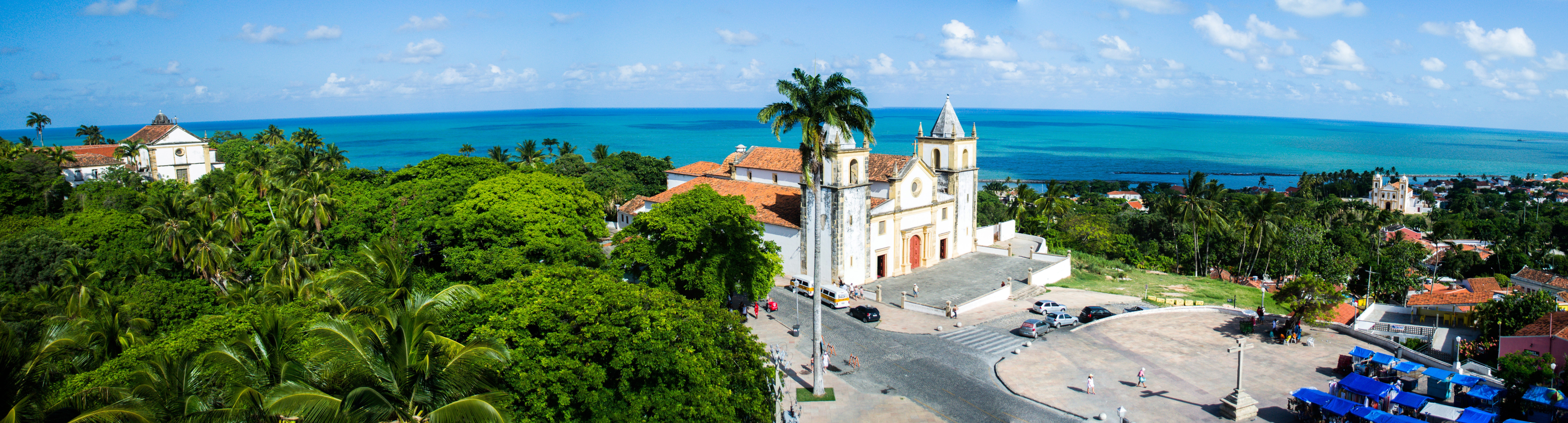 Panoramic view - Olinda, Pernambuco, Brazil